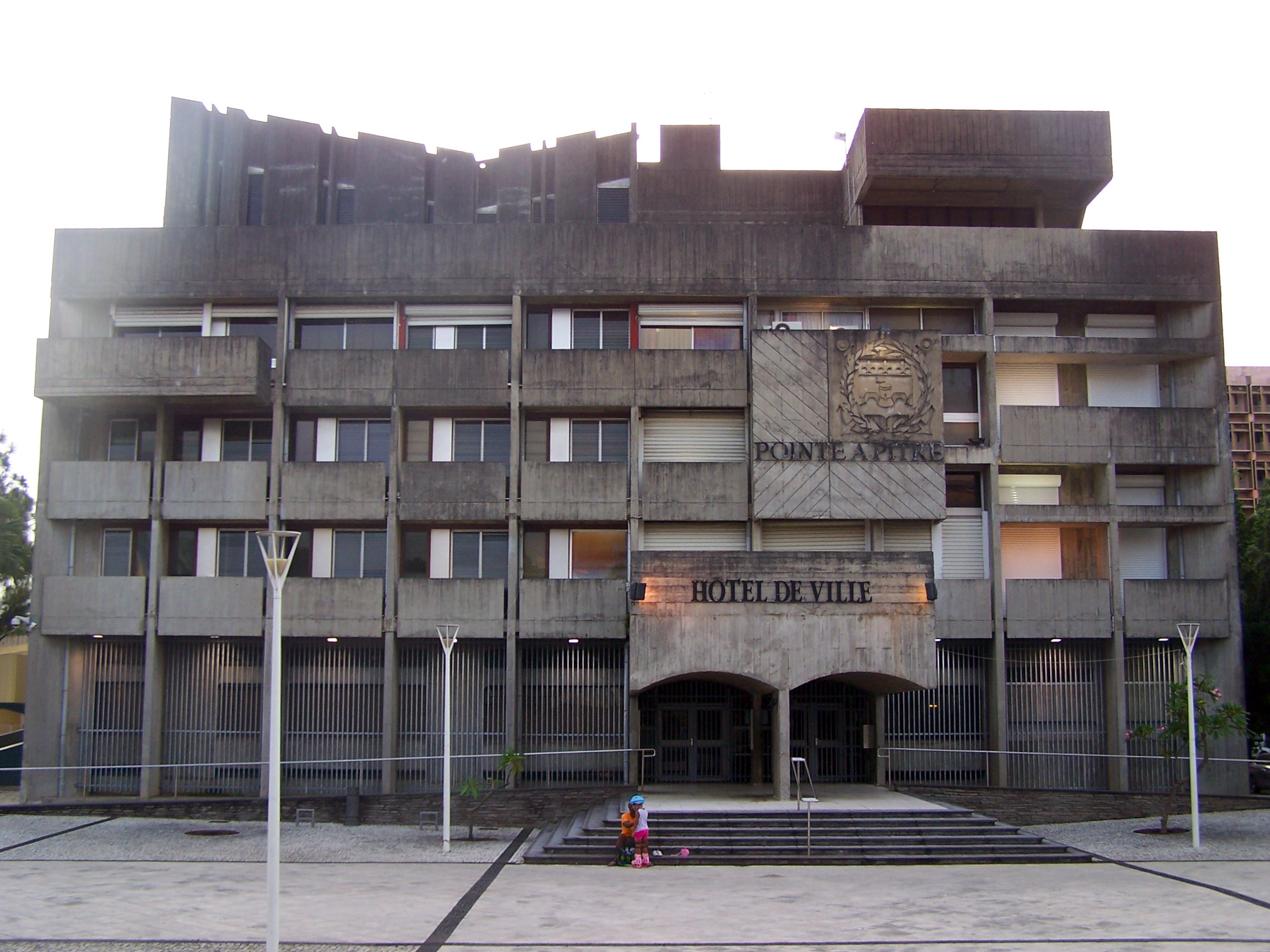 City hall of Pointe-à-Pitre, Guadeloupe